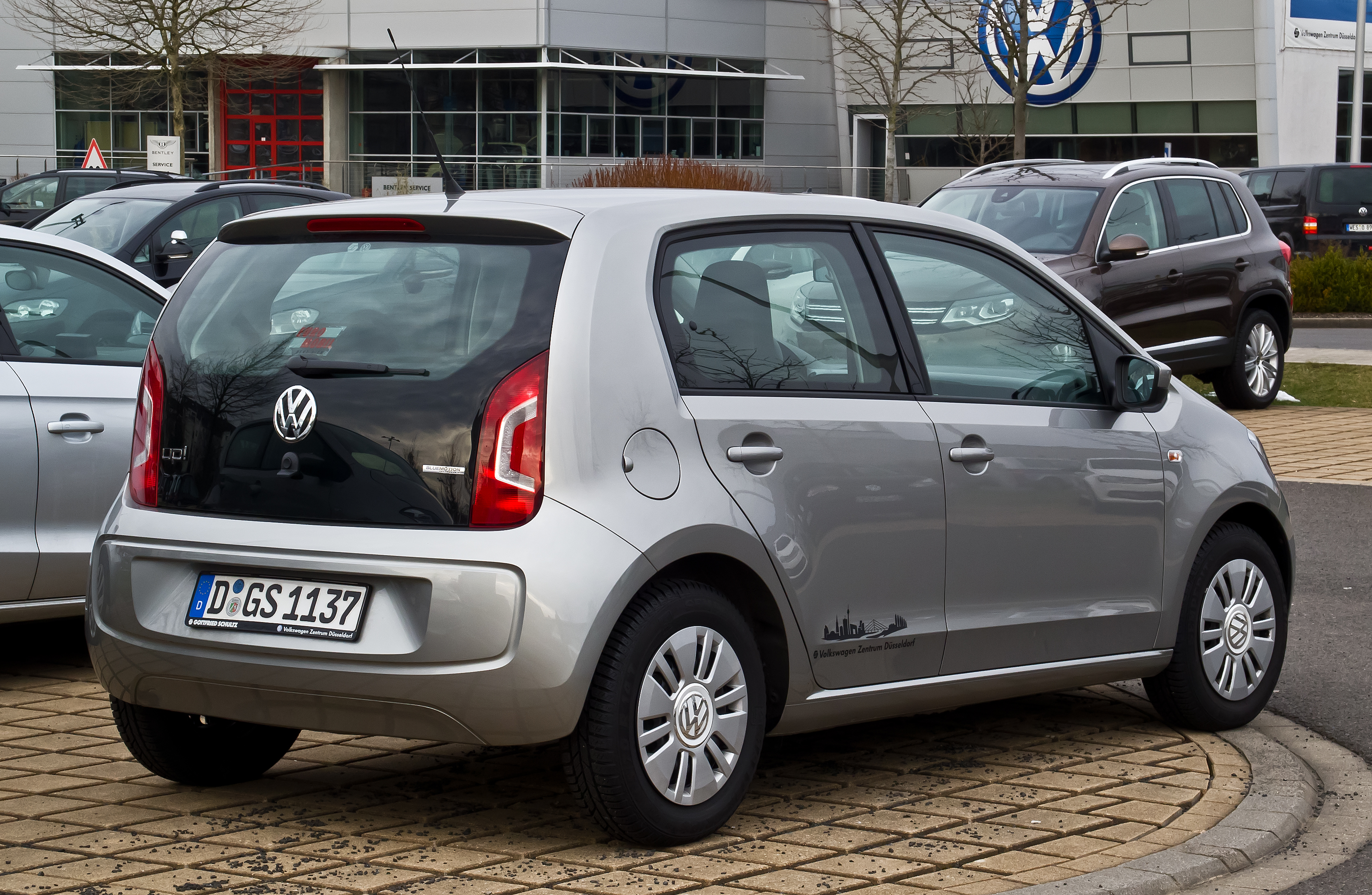 VW move up! 1.0 BlueMotion Technology